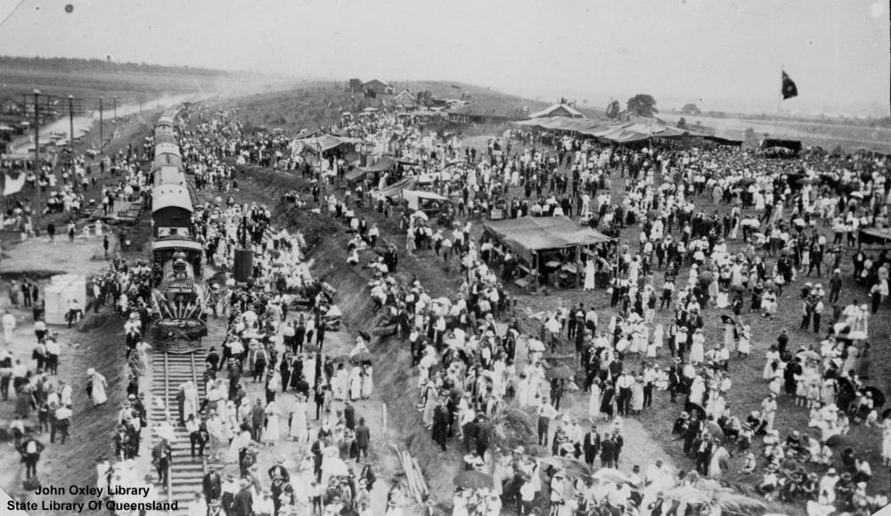 Official opening of the Daradgee Bridge over the Johnstone River, Queensland Official opening of the Daradgee Bridge over the Johnstone River, near Innisfail, Queensland. A finely-dressed crowd surrounds the train and stands among the pavilions There are some houses and a glimpse of the surrounding countryside. See also: Souvenir of the official opening of the north coast railway by the Premier The Hon. E.G. Theodore, 1924.